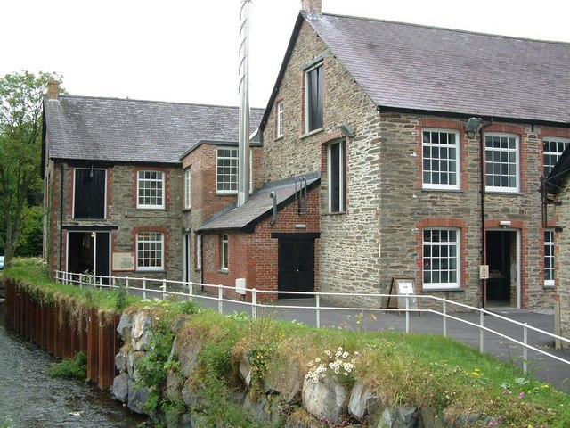 Welsh National Woollen Museum, Dre-fach Felindre, Carmarthenshire/Sir Gaerfyrddin, Wales.